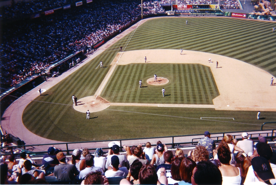 The New York Yankees taking the field against the Anaheim Angels on an August 25, 2001 game at Edison International Field of Anaheim. This photograph was taken using an unspecified disposal 35mm camera and scanned using a Canon CanoScan LiDE 60 scanner